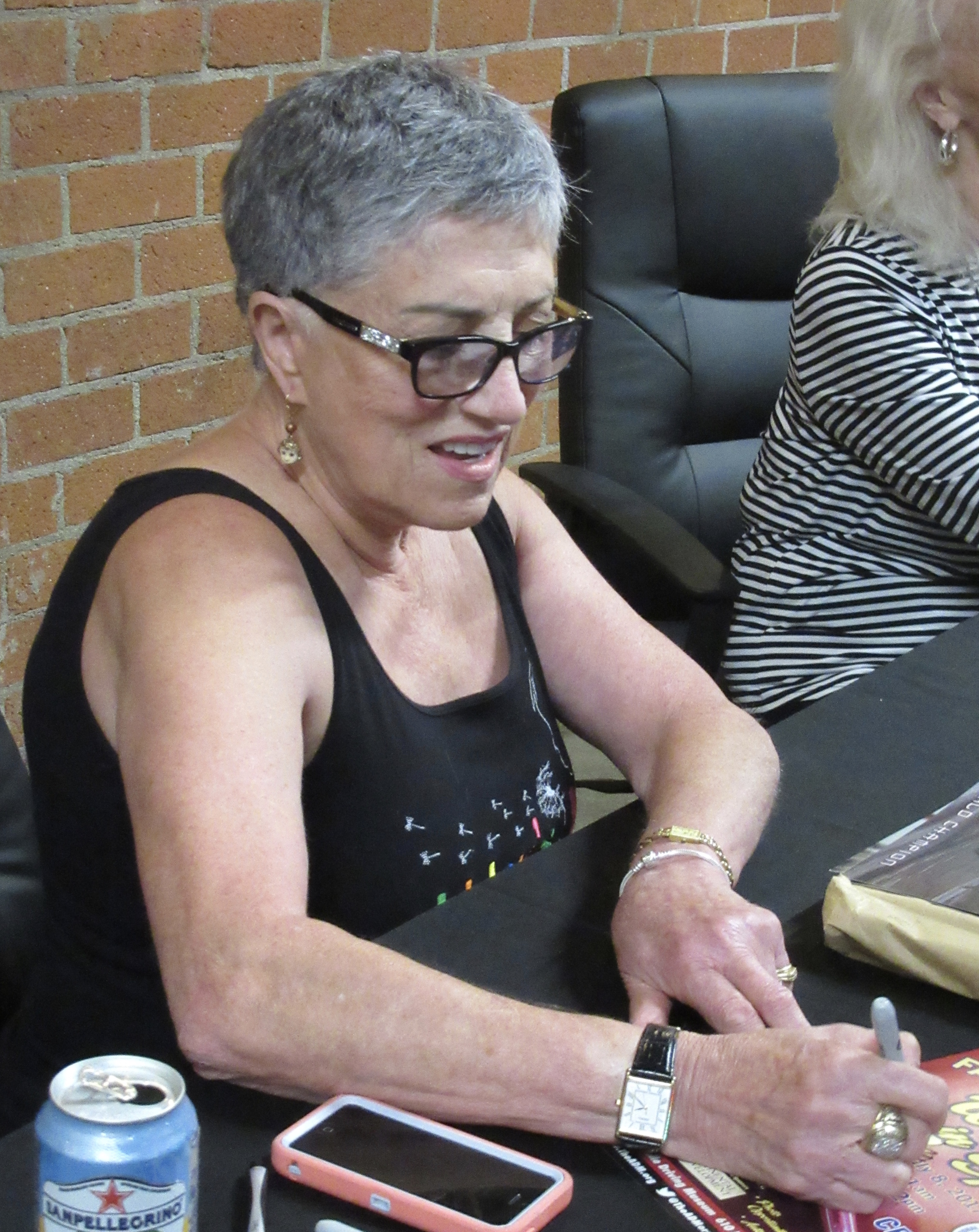 Shirley Muldowney signing autographs at the Automobile Driving Museum in El Segundo CA, July 2017